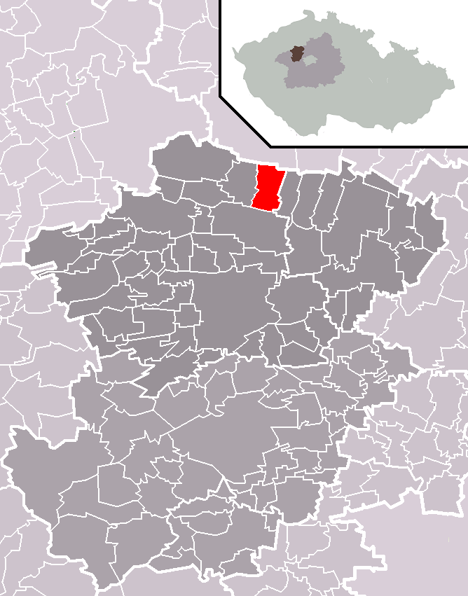 Location of Šlapanice municipality within Kladno District and administrative area of Slaný as a Municipality with Extended Competence.